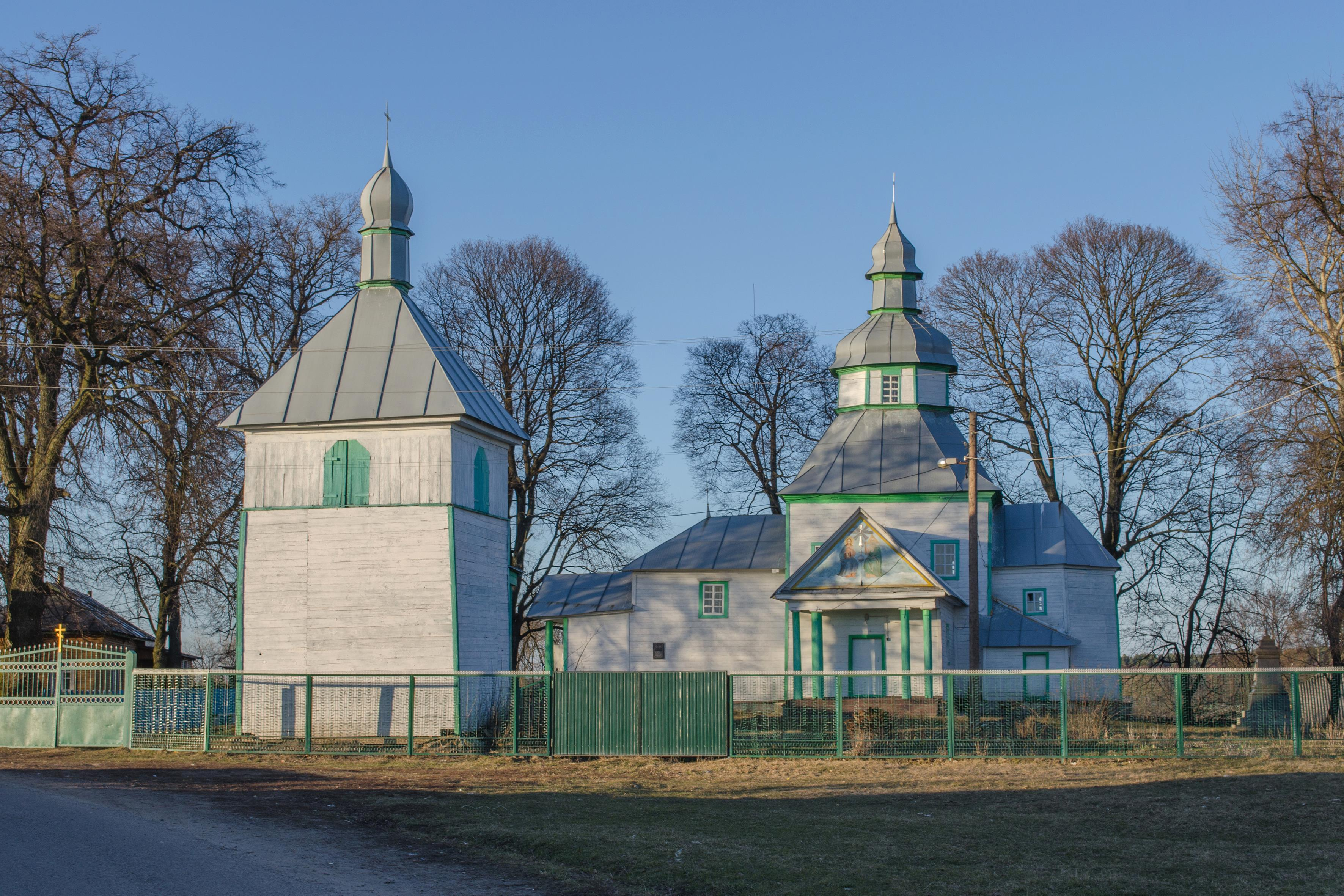 v.Novyi Bilous, Chernihiv Raion, Chernihiv Oblast, Ukraine